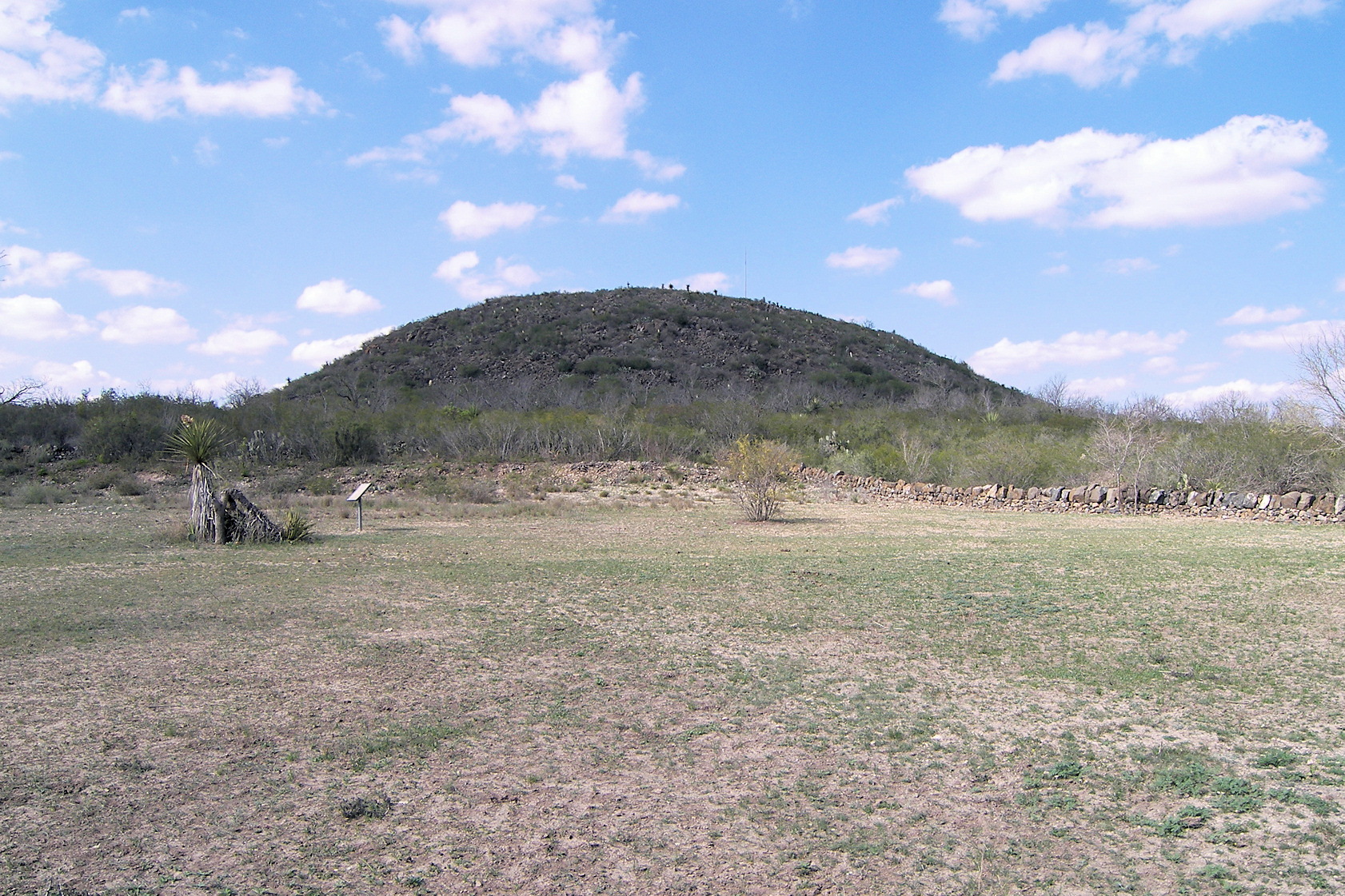 The former site of Fort Inge located in Uvalde County, Texas, United States. In 1961, the site became the Fort Inge Historical Site County Park. The site was listed on the National Register of Historic Places on September 12, 1985.